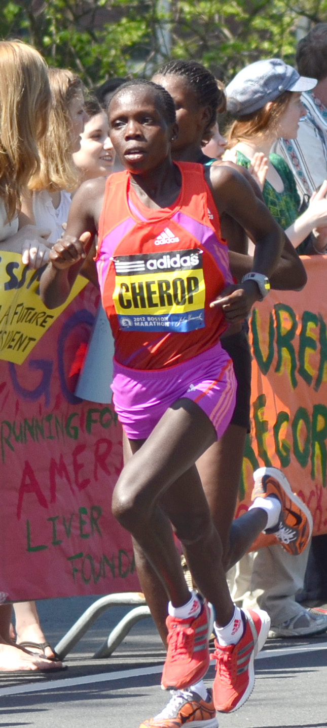 Sharon Cherop, female winner of 2012 Boston Marathon near half way point at Wellesley College scream tunnel.